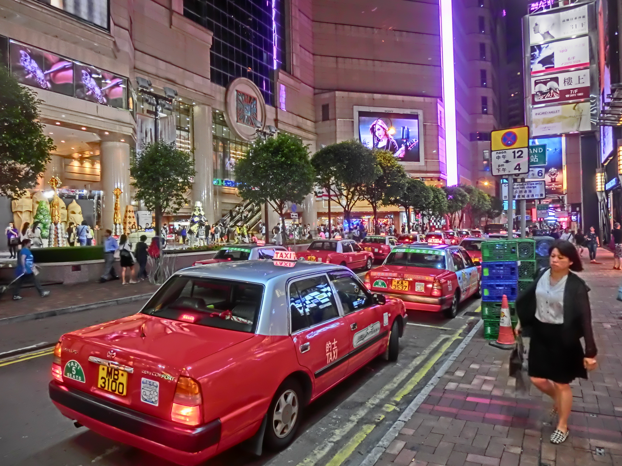 銅鑼灣 羅素街, Taxi stand at Russell Street, Causeway Bay, Hong Kong